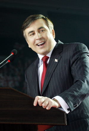 Georgian President Mikheil Saakashvili in Tbilisi, March 22, 2008